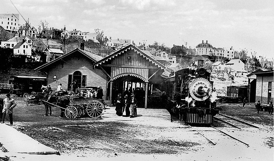 Maine Central Railroad station in Belfast, Maine around 1900.